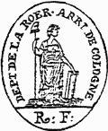 stamp / seal of the former french Arrondissement Cologne